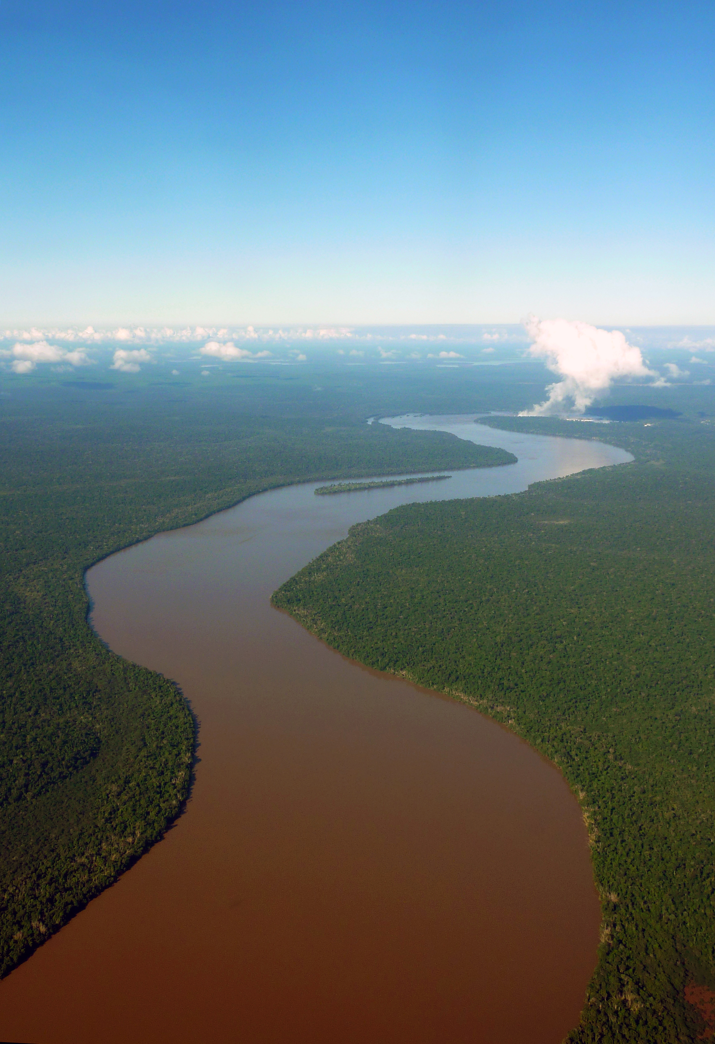 Iguazu River Iguazu Falls Brazil Argentina 2010 helicopter view